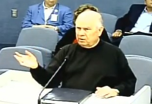 Club Madonna proprietor Leroy C. Griffith addresses the Miami Beach City Commission, Sept. 9, 2009